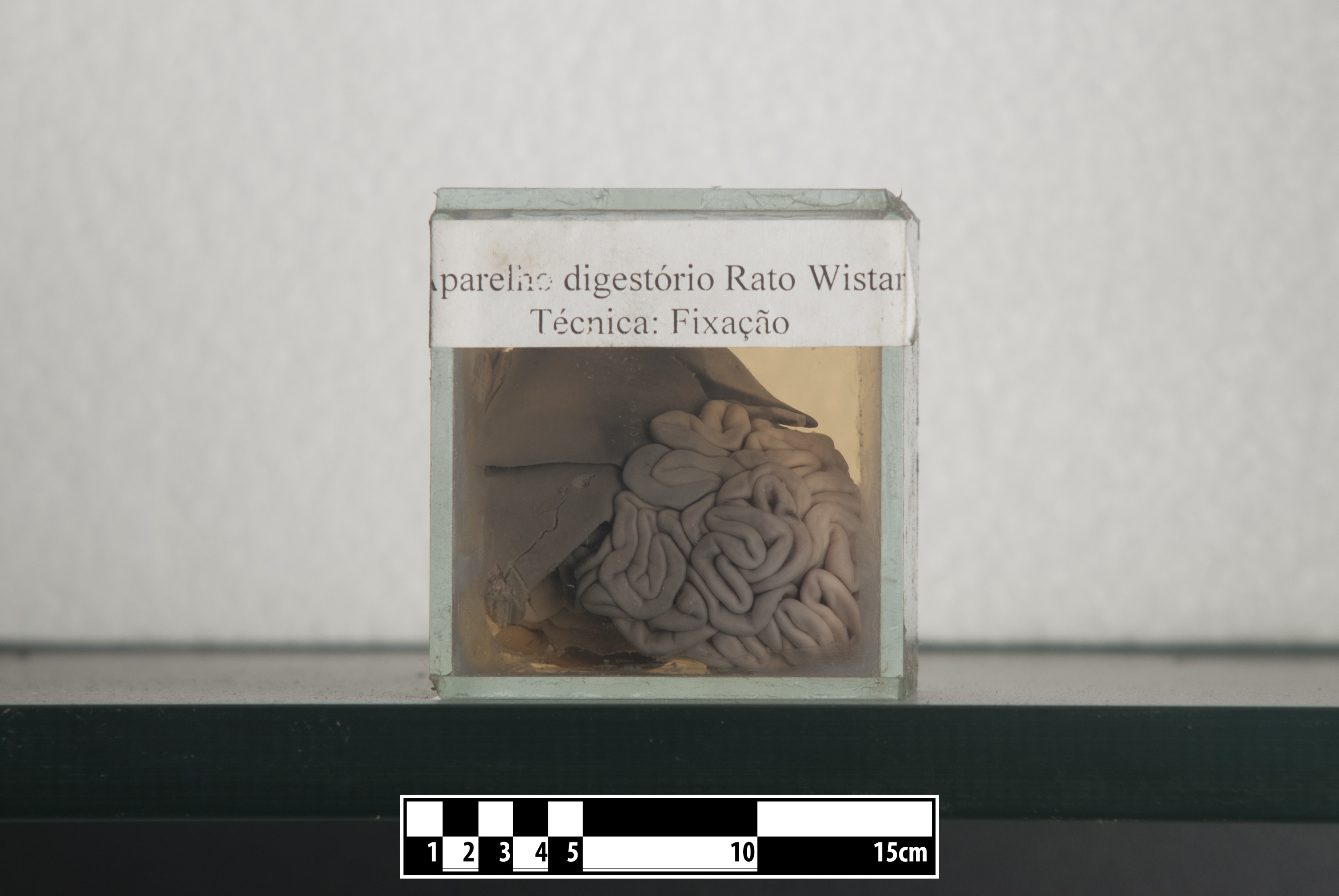 Wistar rat digestive system. Rattus norvegicus Technique of formalin fixation on display at the Museum of Veterinary Anatomy, FMVZ USP. This file was published as the result of a partnership between the Museum of Veterinary Anatomy FMVZ USP, the RIDC NeuroMat and the Wikimedia Community User Group Brasil. This GLAM project is reported. Photography: Museum of Veterinary Anatomy FMVZ USP. Author: Wagner Souza e Silva.